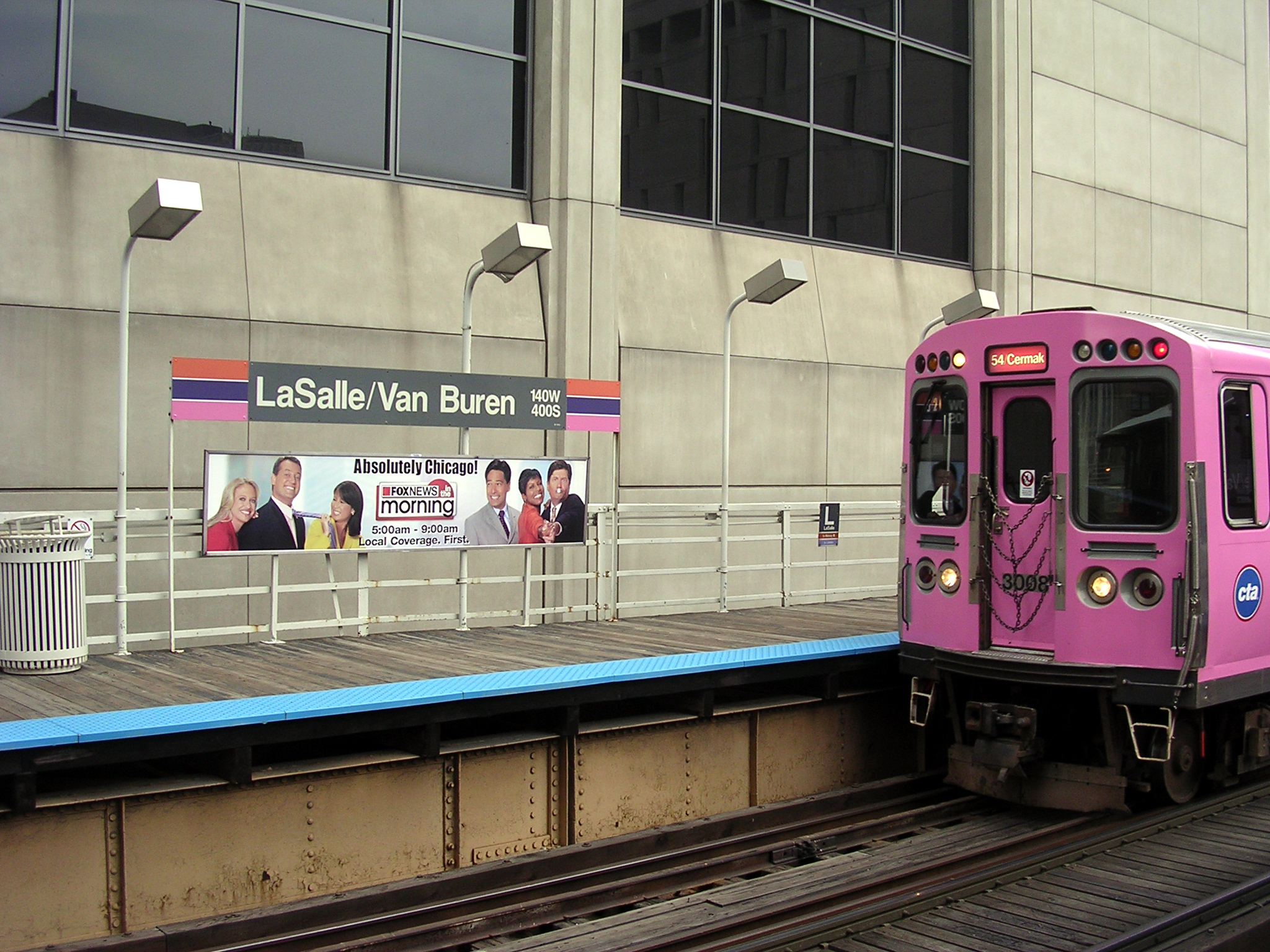 A Pink Line train arrives at LaSalle/Van Buren Station in the Chicago Loop